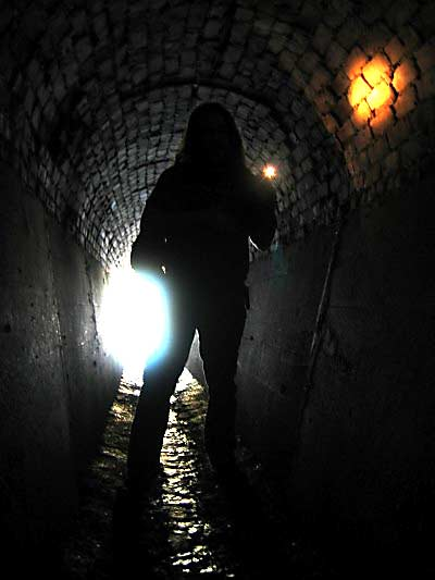 An urban explorer stands near the outfall of a muffin shaped brick and concrete storm drain, under Saint Paul, Minnesota. Taken by User:Brockert at 16:05:50 local time on October 9 en:2004, using a Canon PowerShot S45. The exposure was 0.4 seconds at f/3.2 with a focal length of 8.6mm. A larger version is available if it is to be printed.